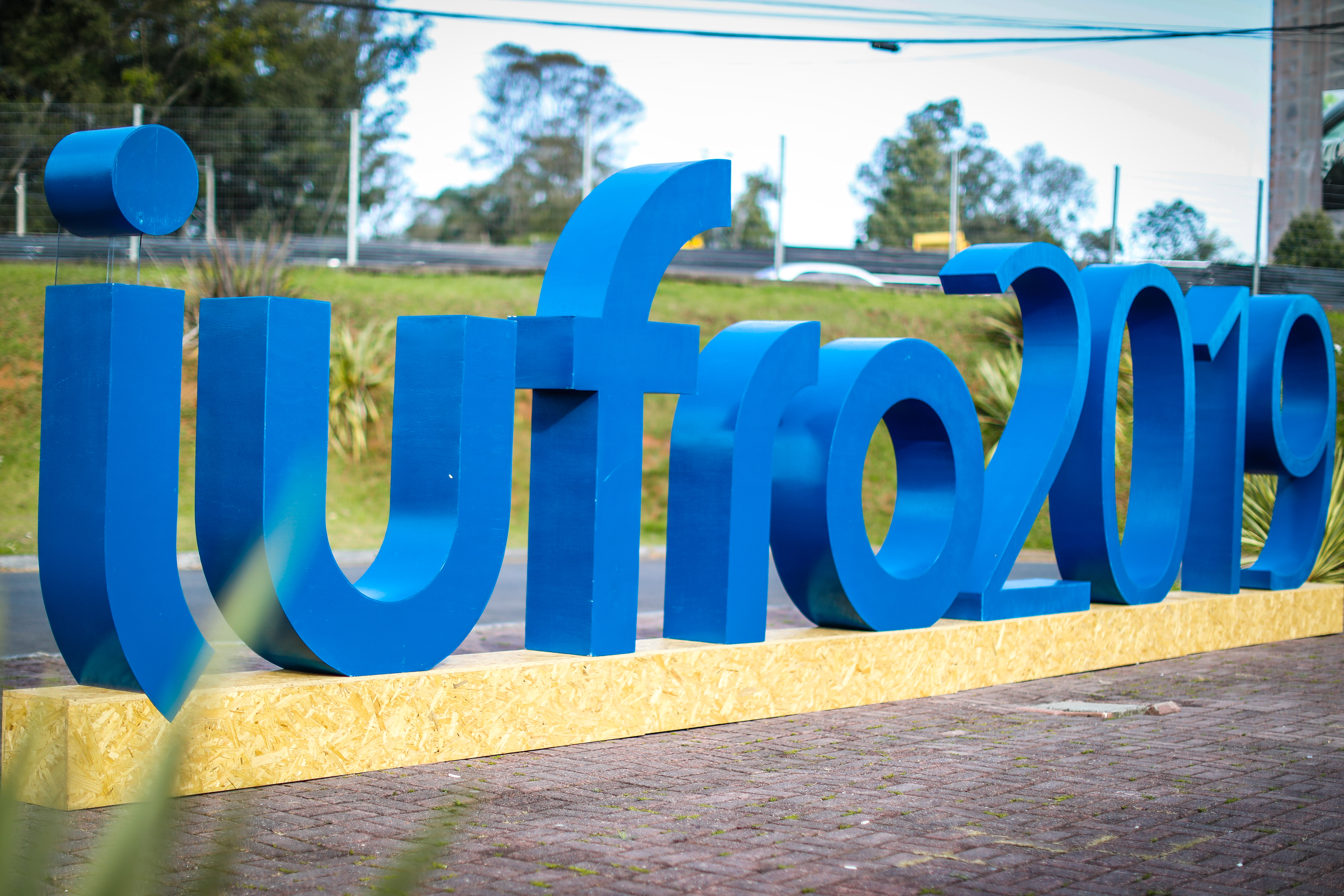 XXV IUFRO World Congress 2019 "Forest Research and Cooperation for Sustainable Development"